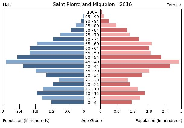 The population pyramid of Saint Pierre and Miquelon illustrates the age and sex structure of population and may provide insights about political and social stability, as well as economic development. The population is distributed along the horizontal axis, with males shown on the left and females on the right. The male and female populations are broken down into 5-year age groups represented as horizontal bars along the vertical axis, with the youngest age groups at the bottom and the oldest at the top. The shape of the population pyramid gradually evolves over time based on fertility, mortality, and international migration trends.